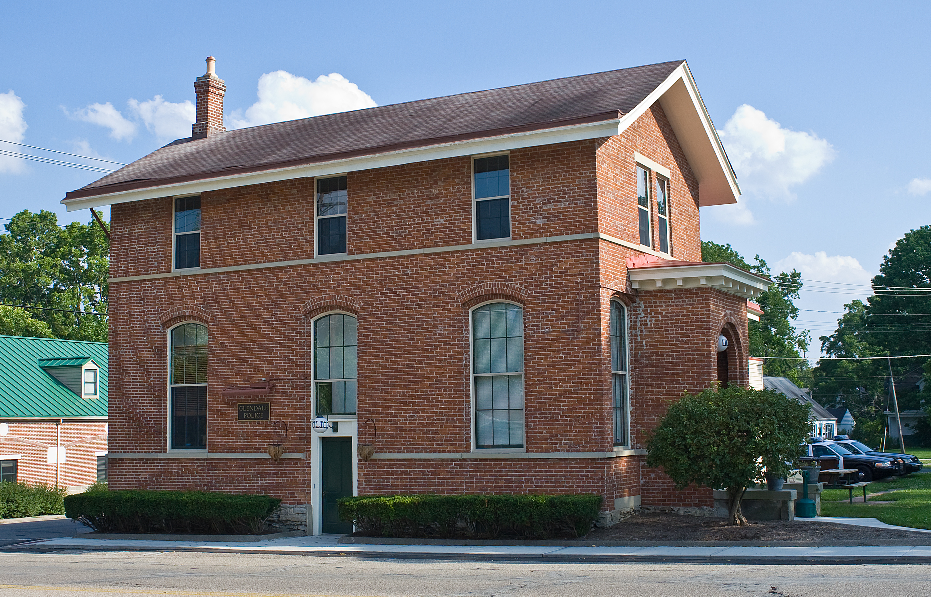 Glendale Police Station, 305 E. Sharon Ave., Glendale, OH Photo by Greg Hume